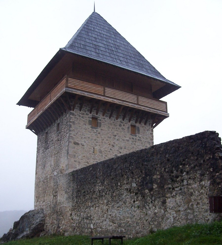 Kljuc (Bosnia and Hercegovina) Old Town Tower